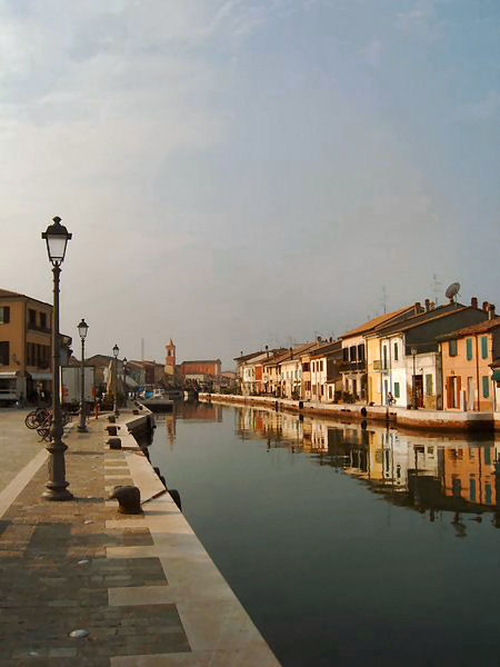 Harbour, Cesenatico, Italy.